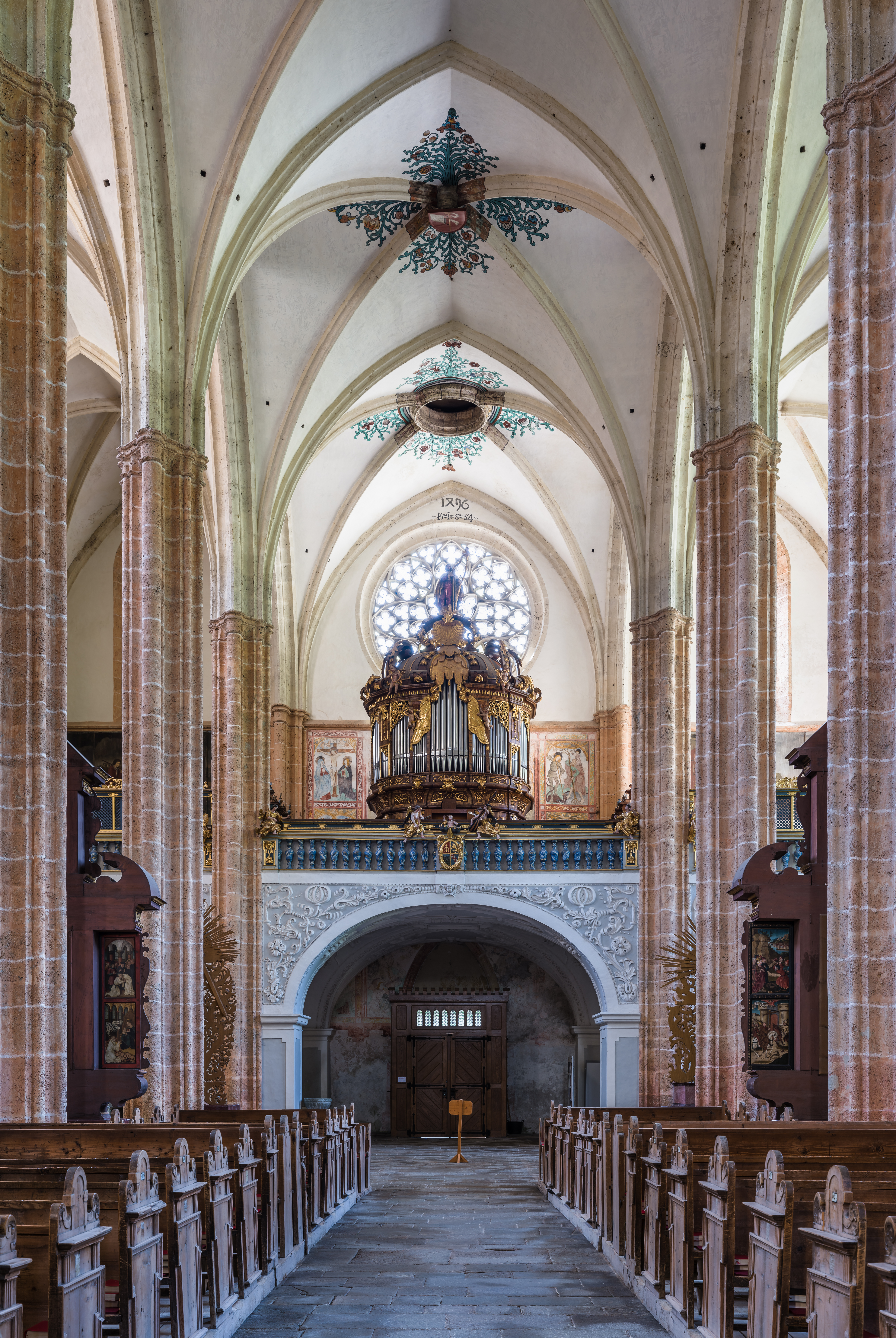 Pipe organ at Neuberg Abbey Church in Neuberg an der Mürz, Styria, Austria. Orgelbau Krenn, II/28, built in 1971. Baroque case of the organ around 1725.